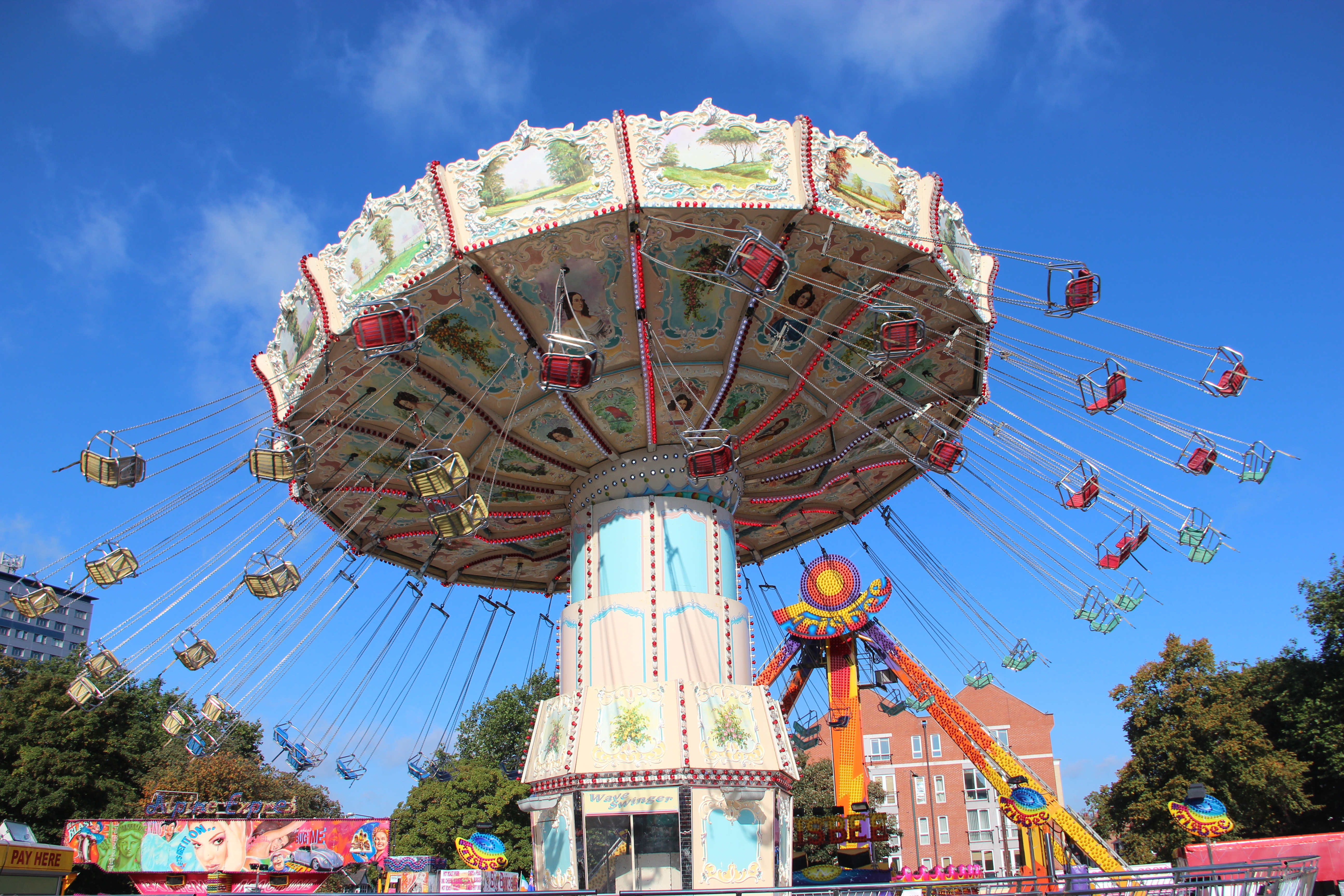 early morning ride at the Goose Fair